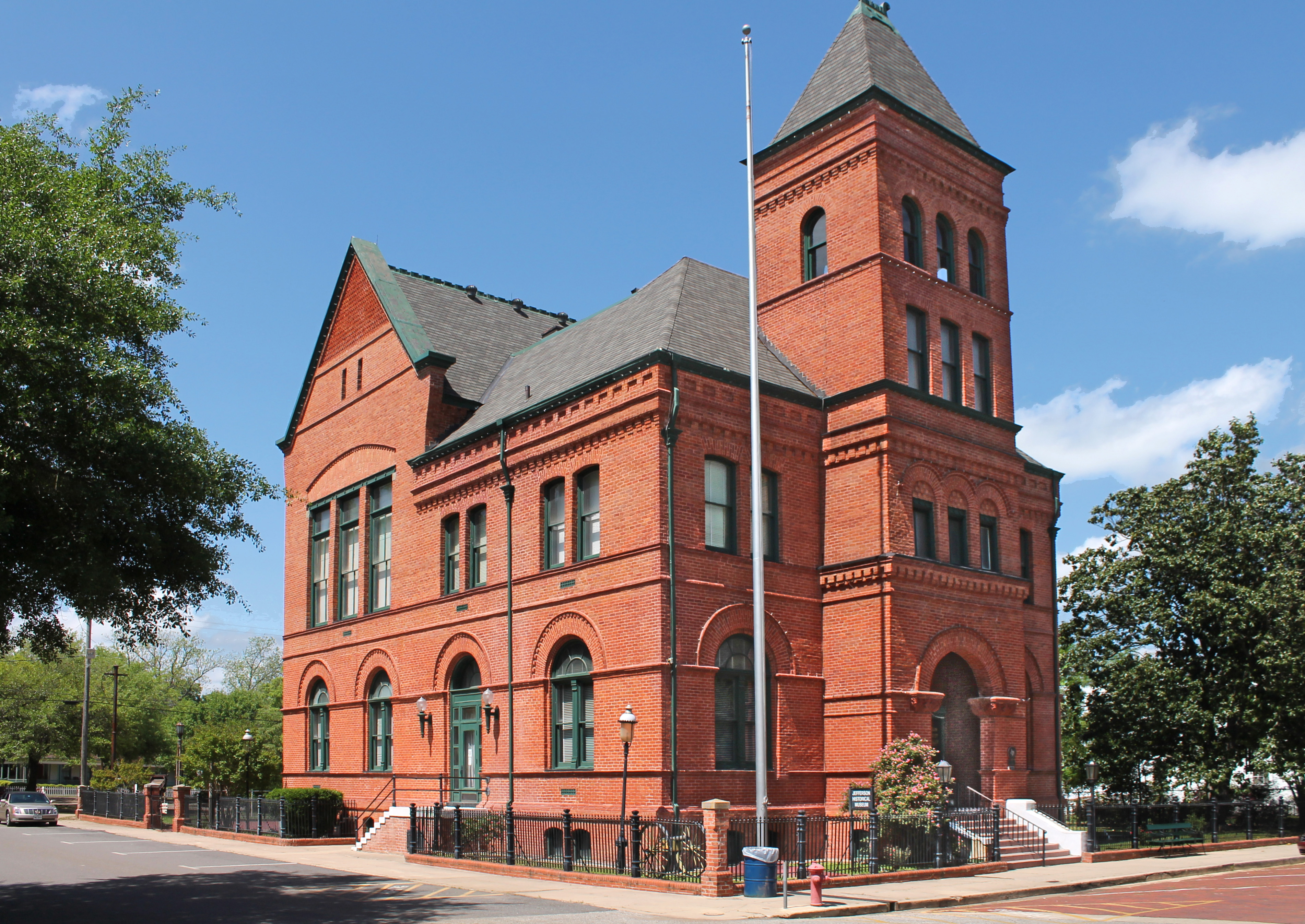 Old U.S. Post Office and Courts Building